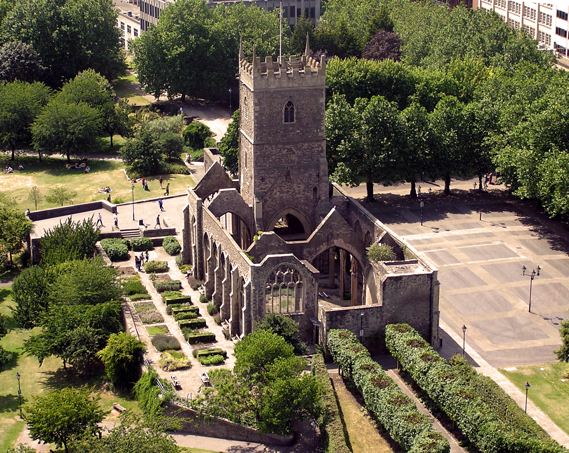 Looking across Castle Park in central Bristol, England, from a tethered passenger balloon at 500 feet. The ruined church, St. Peter’s, was gutted by enemy action in 1940. The channeled River Avon (called the Floating Harbour) is on the left.